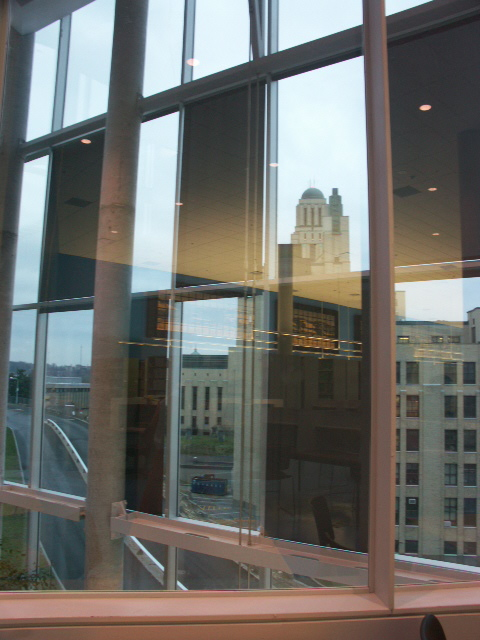 Polytechnique of Montreal, light adjustment system of Lassonde buildings. View on the main building of Université de Montréal. Photo by: user:gene.arboit